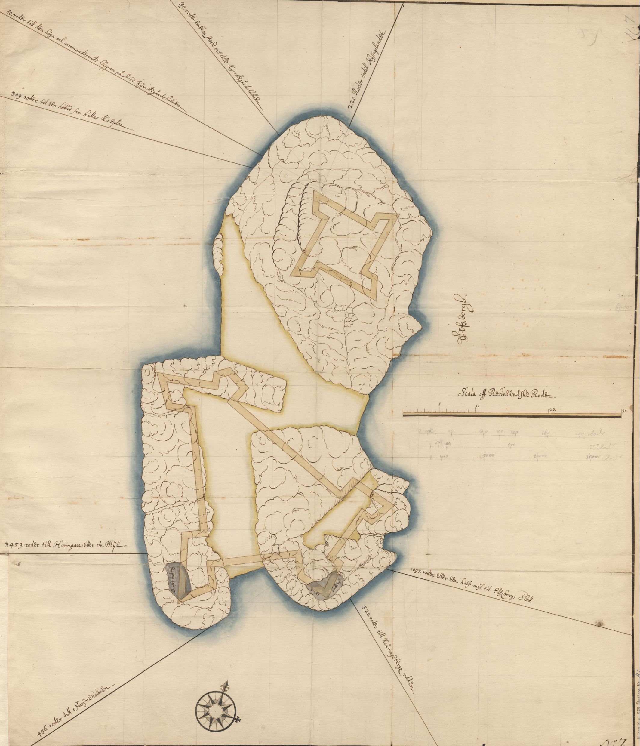 Suggestion for future defensive buildings, later known as fortress Nya Älvsborg, at Kyrkogårdsholmen. The defensive works was part of the outer defences of the city Gothenburg, in Sweden. Earlier danish fortifications in grey.